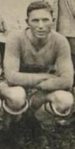 Anonymous - Postcard out of print - Phototypie Labouche frères, Toulouse (France) - printer closed since 1960.